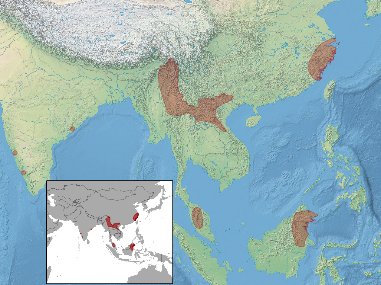 geographic distribution of Myotis montivagus